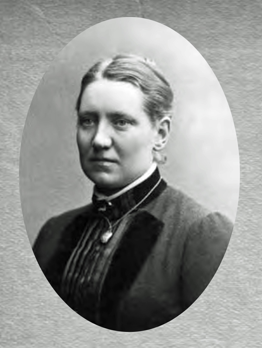 Finnish women's rights activist and benefactor